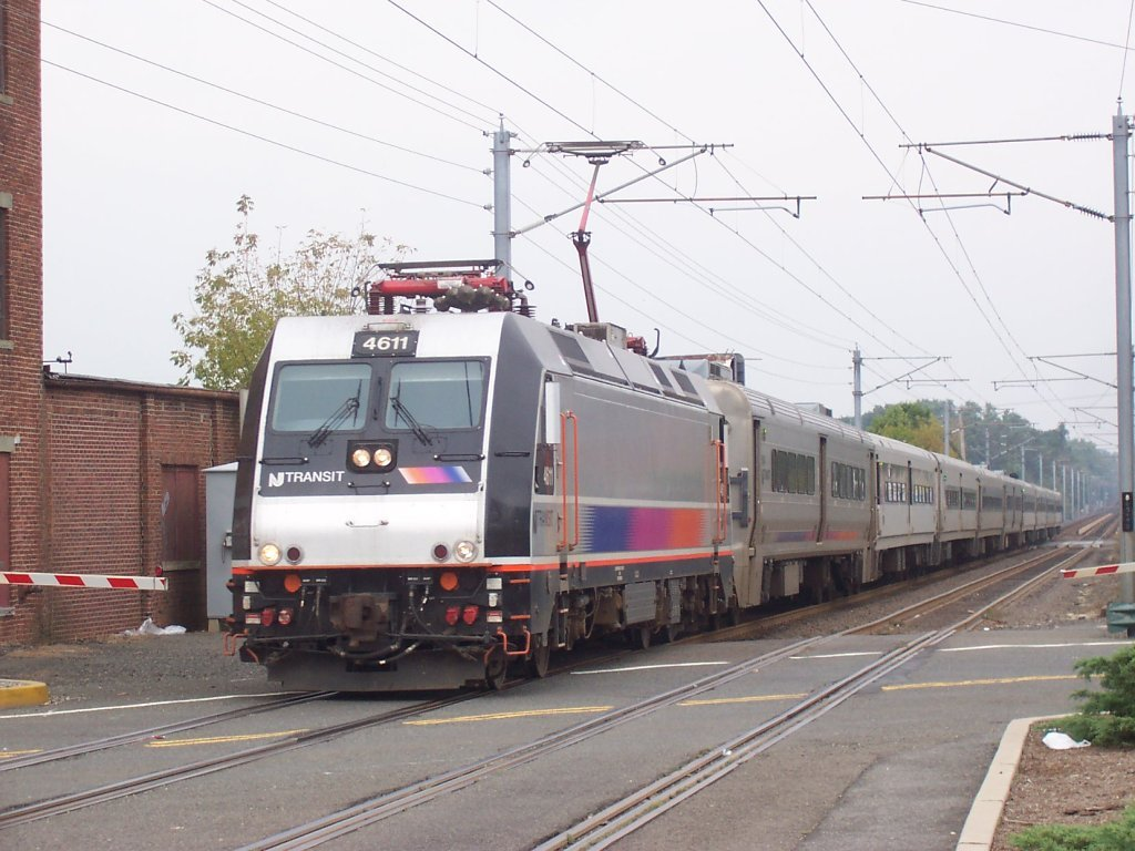 New Jersey Transit train 3239 entering the Red Bank railroad station in Red Bank, New Jersey, going over the Monmouth Avenue/Bridge Street crossing due south.